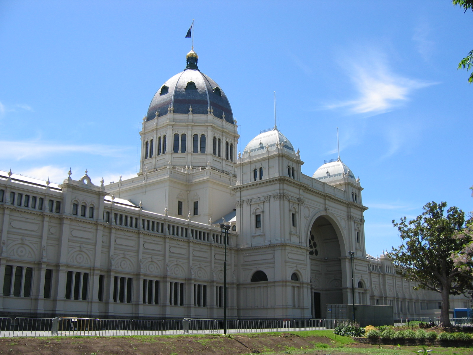 Royal Exhibition Building in Melbourne, Victoria